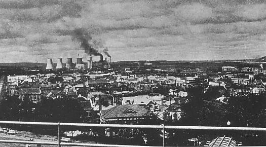 View of Fushun circa 1940